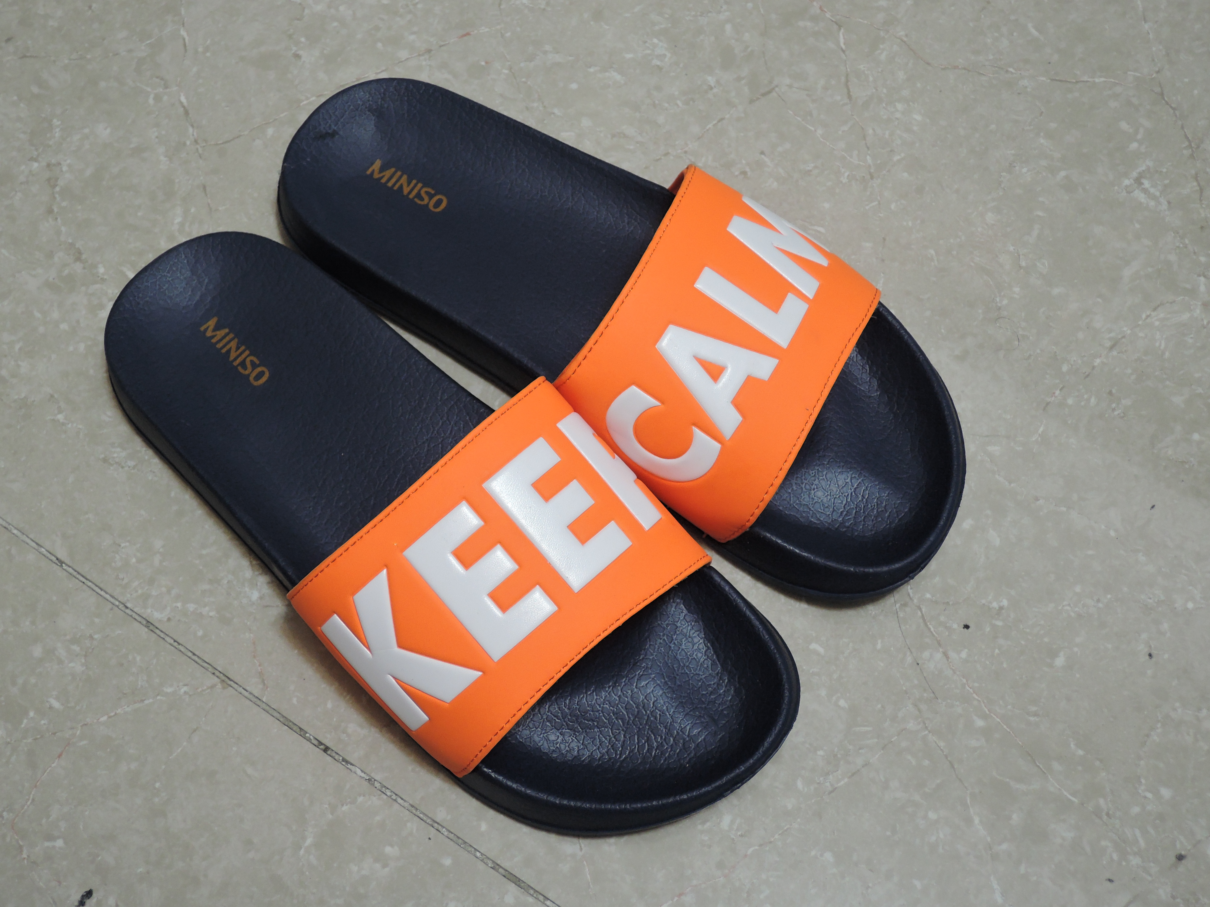 Orange color Keep Calm Sandal in Miniso